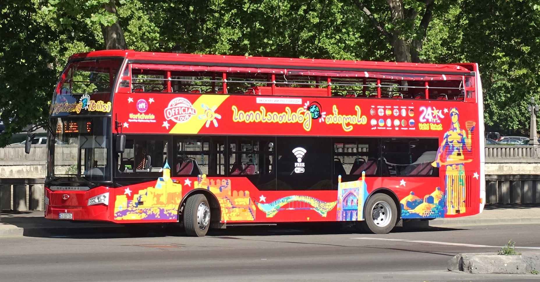 A red double-decker bus in Tbilisi, Georgia.